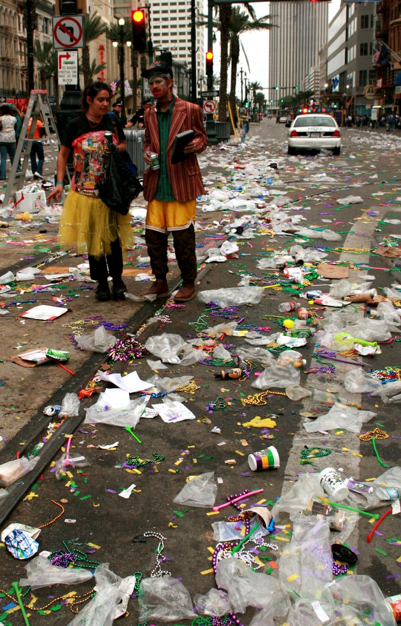 Mess after Mardi Gras. New Orleans.